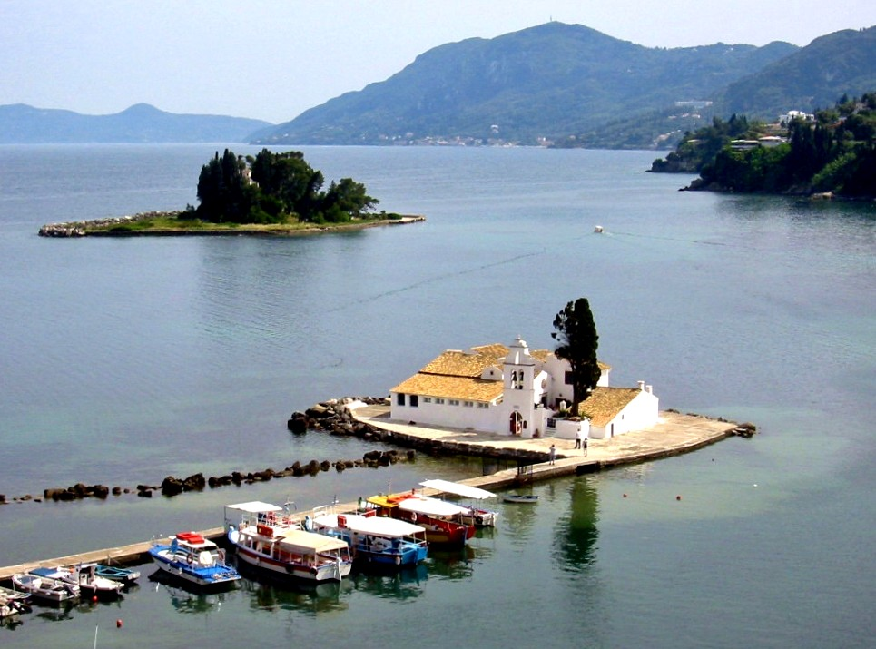 Monastery Island Vlacherna, Corfu, Greece